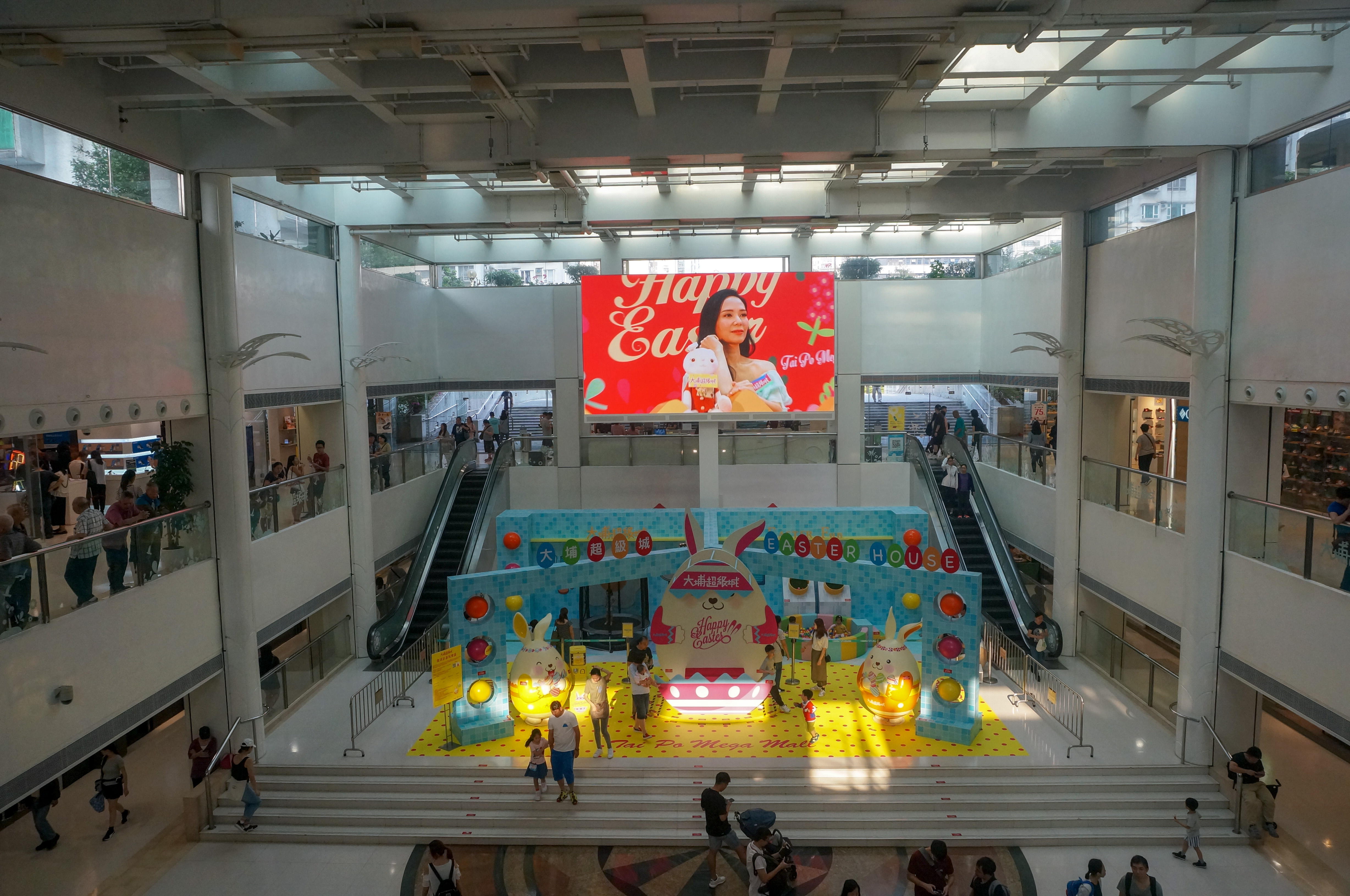 Tai Po Mega Mall Zone C Void